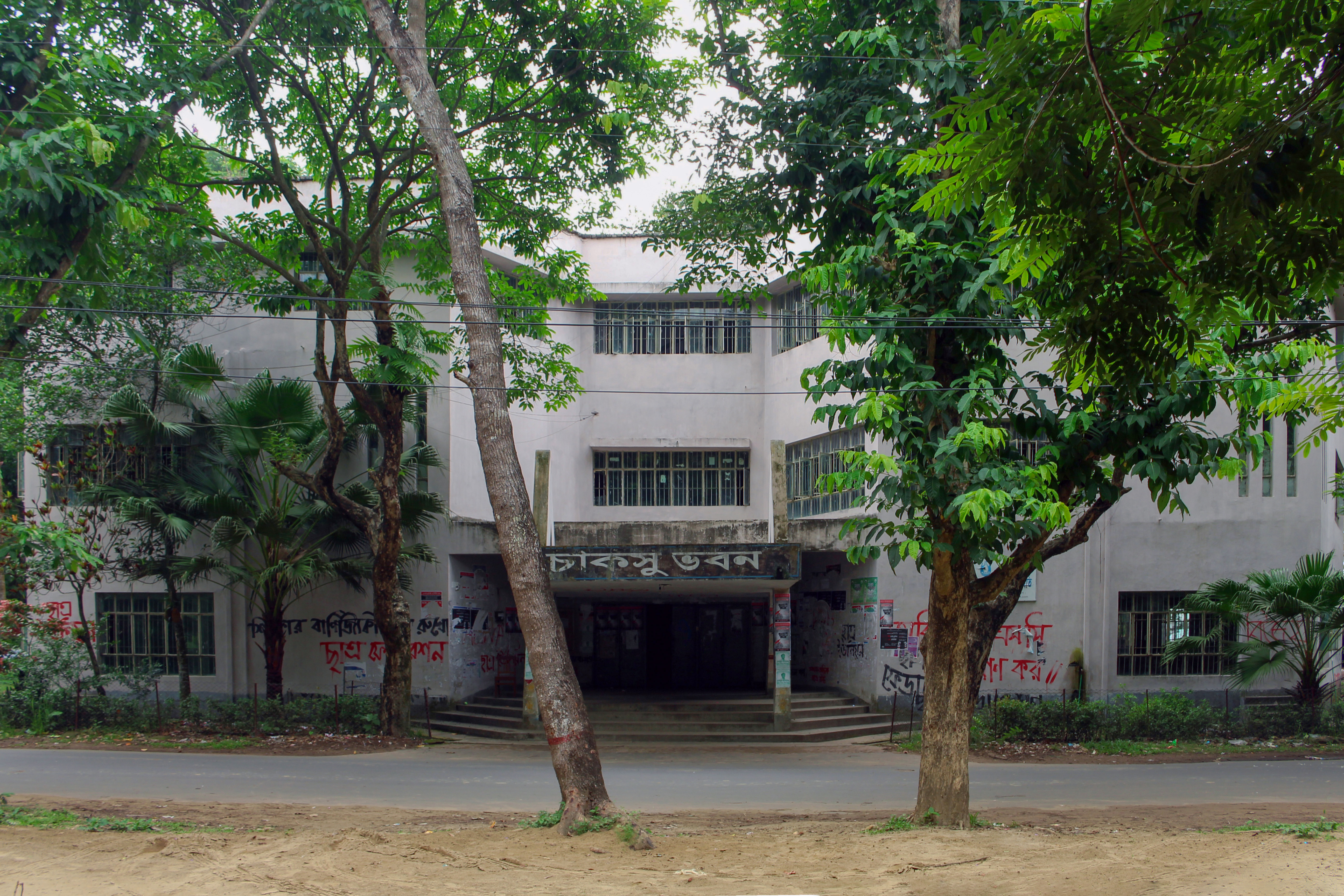 Chittagong University Central Students' Union (CUCSU) (east exposure, front), Biological Sciences Road, University of Chittagong.